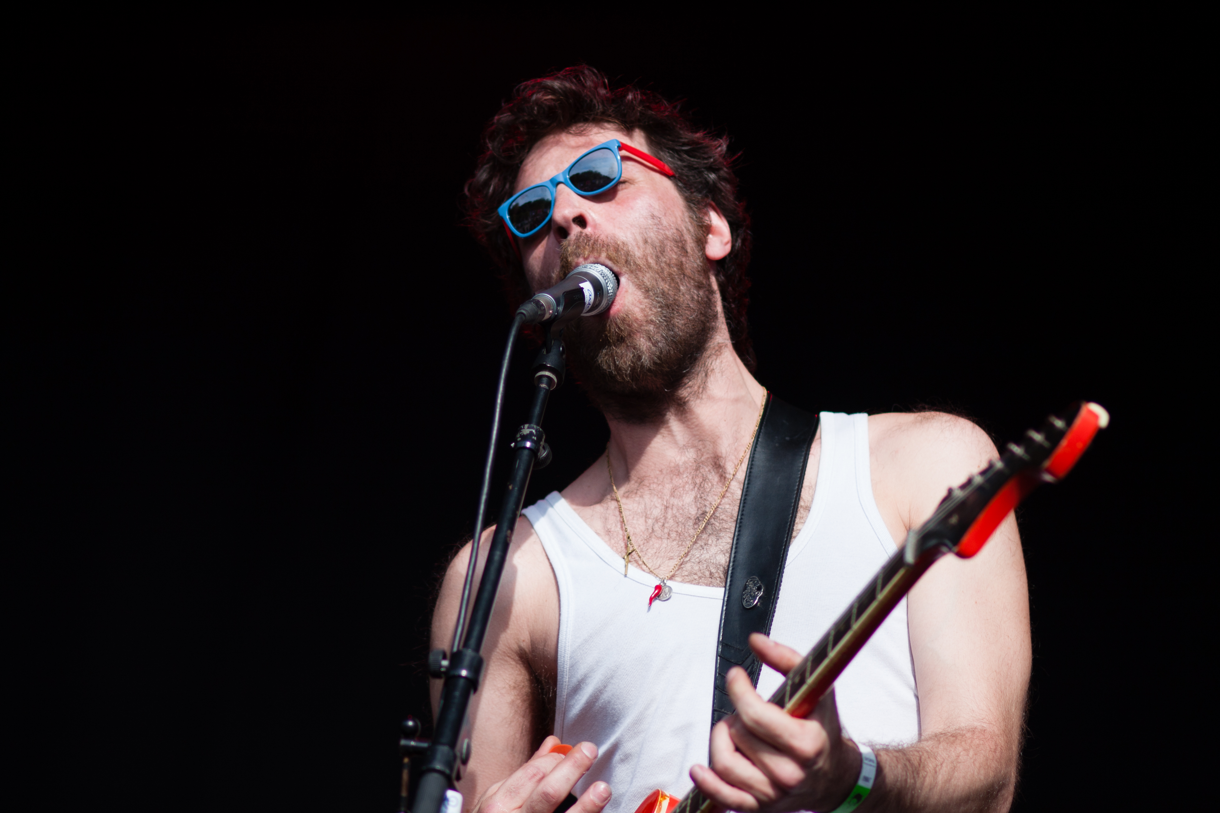 Place des Palais Follow me on facebook Twitter : @didyPhotography All the photographies I've made are now under CC0 (Creative Commons Zero) CC0 - learn more To the extent possible under law, Eddy BERTHIER has waived all copyright and related or neighboring rights to Fête de la musique 2012 Bxl - The Experimental Tropic Blues Band. This work is published from: France.